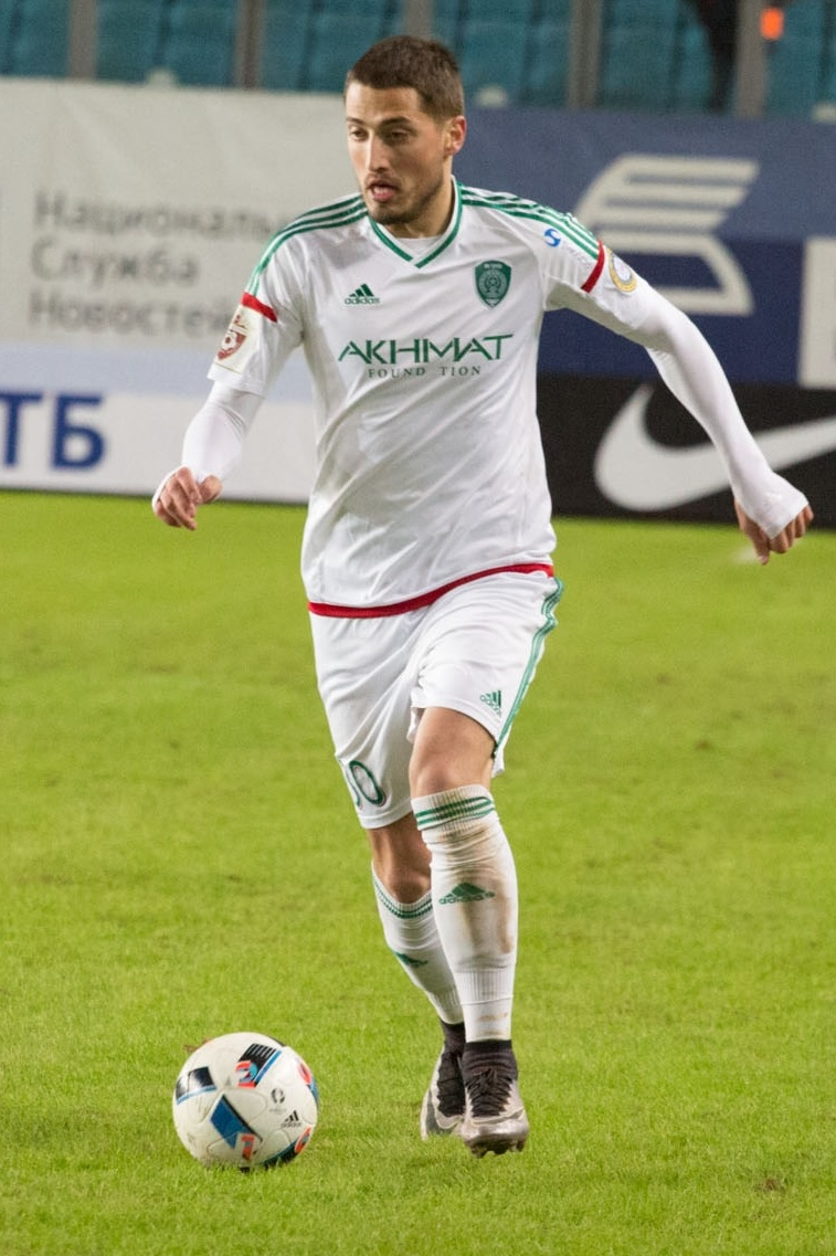 Gheorghe Grovav playing for FC Terek Grozny against FC Dynamo Moscow on 14 March 2016.